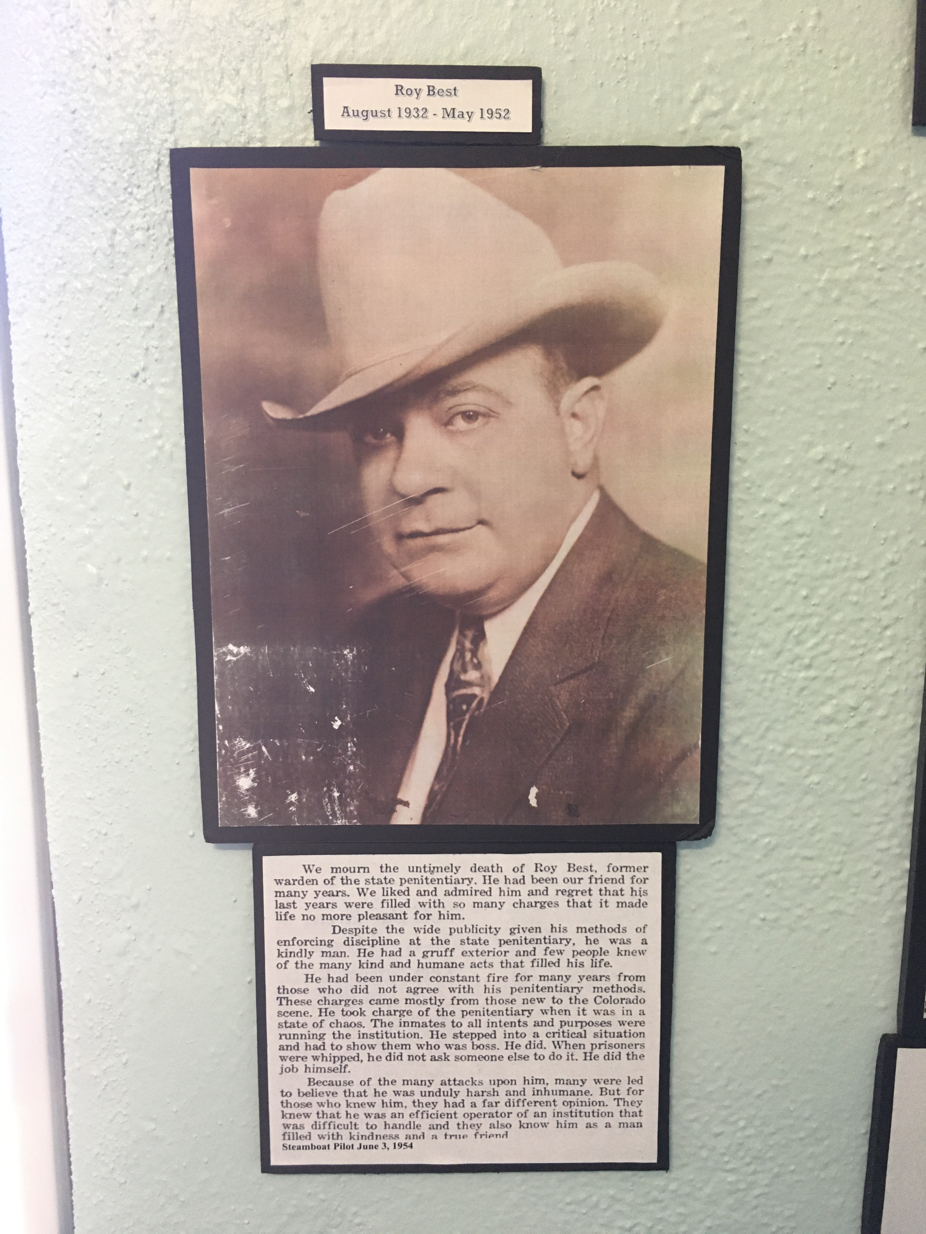 Portrait of Roy Best, along with his Steamboat Pilot obituary, on display at the Colorado Prison Museum (2020)